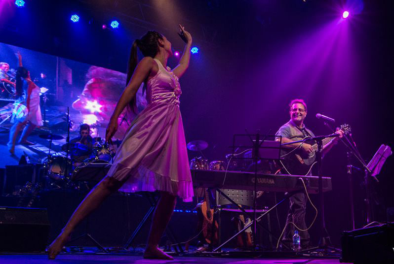 Guillermo Roude, singer and songwriter